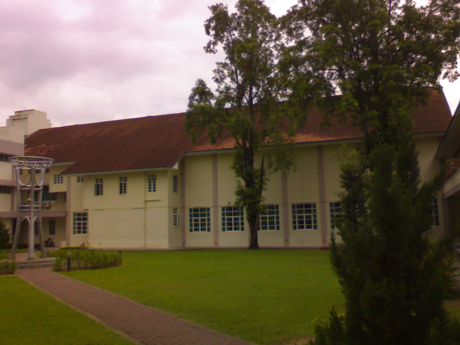 This is Huai Ze Hall of Chung Ling (National Type) High School, as viewed from Block F.